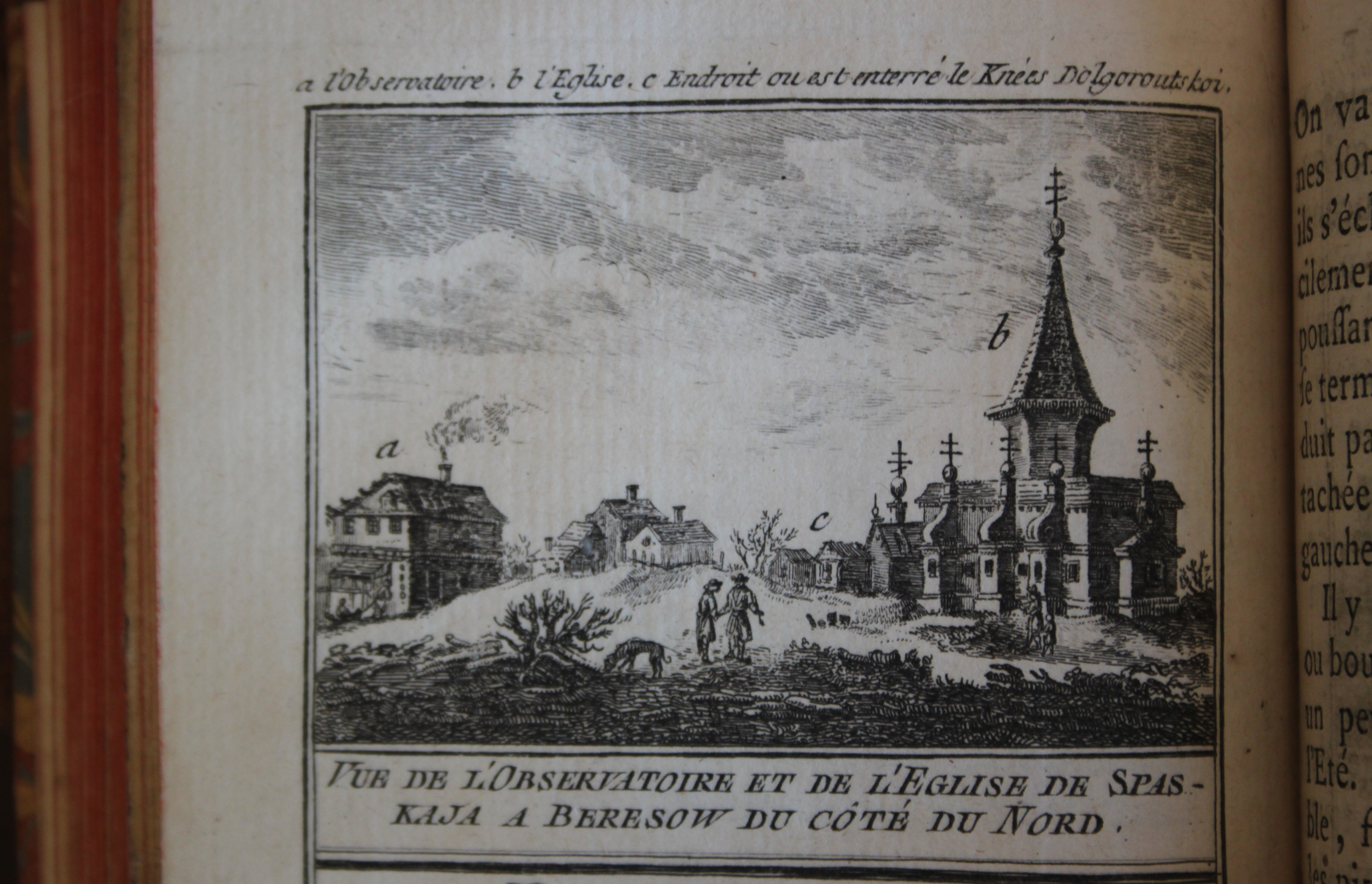 Engraving from Continuation de l'histoire des voyages, vol. 72 (1768) showing Joseph-Nicolas Delisle's observatory in Beryozovo (1740).